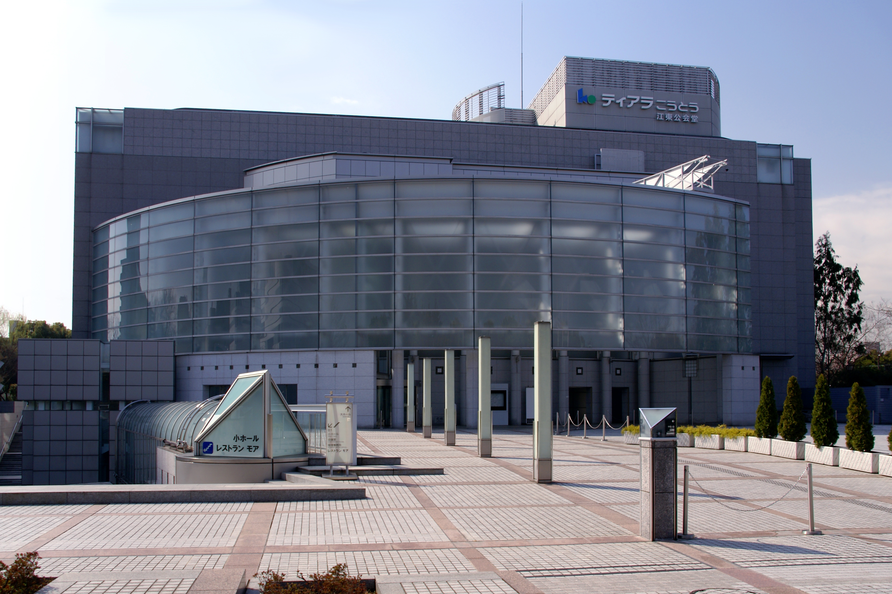 Tiara-Koto of Sarue park in Koto-ku, Tokyo, Japan